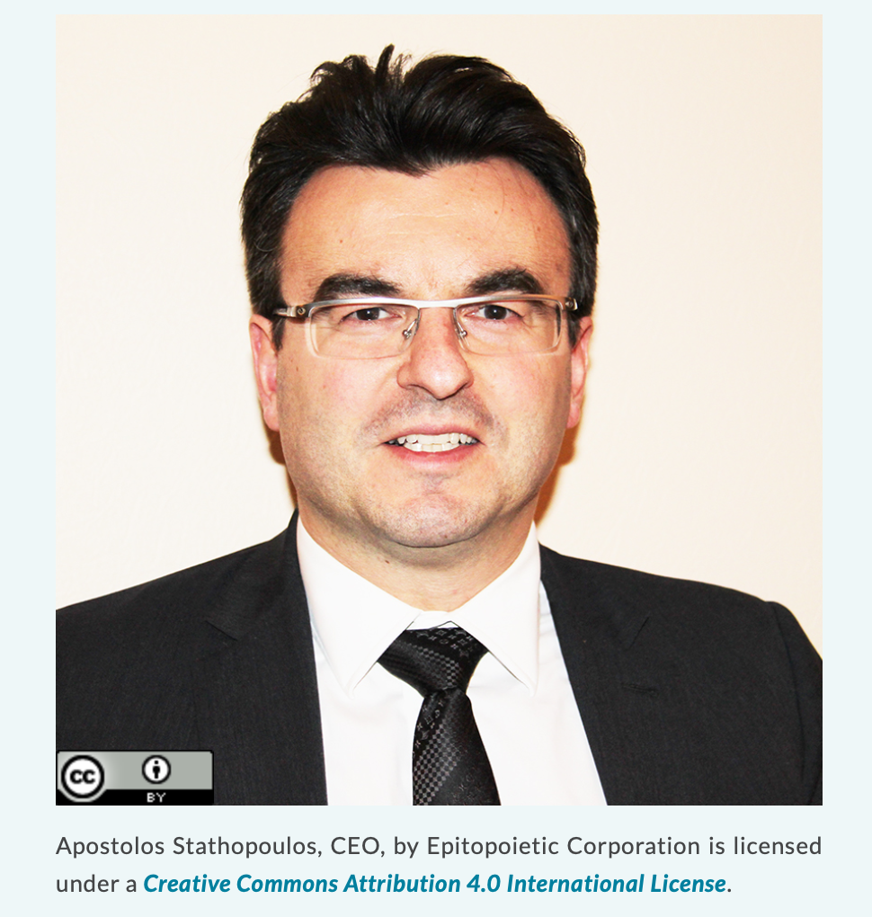 CEO and founder of ERC-Belgium. This picture was found on the investor relations page.